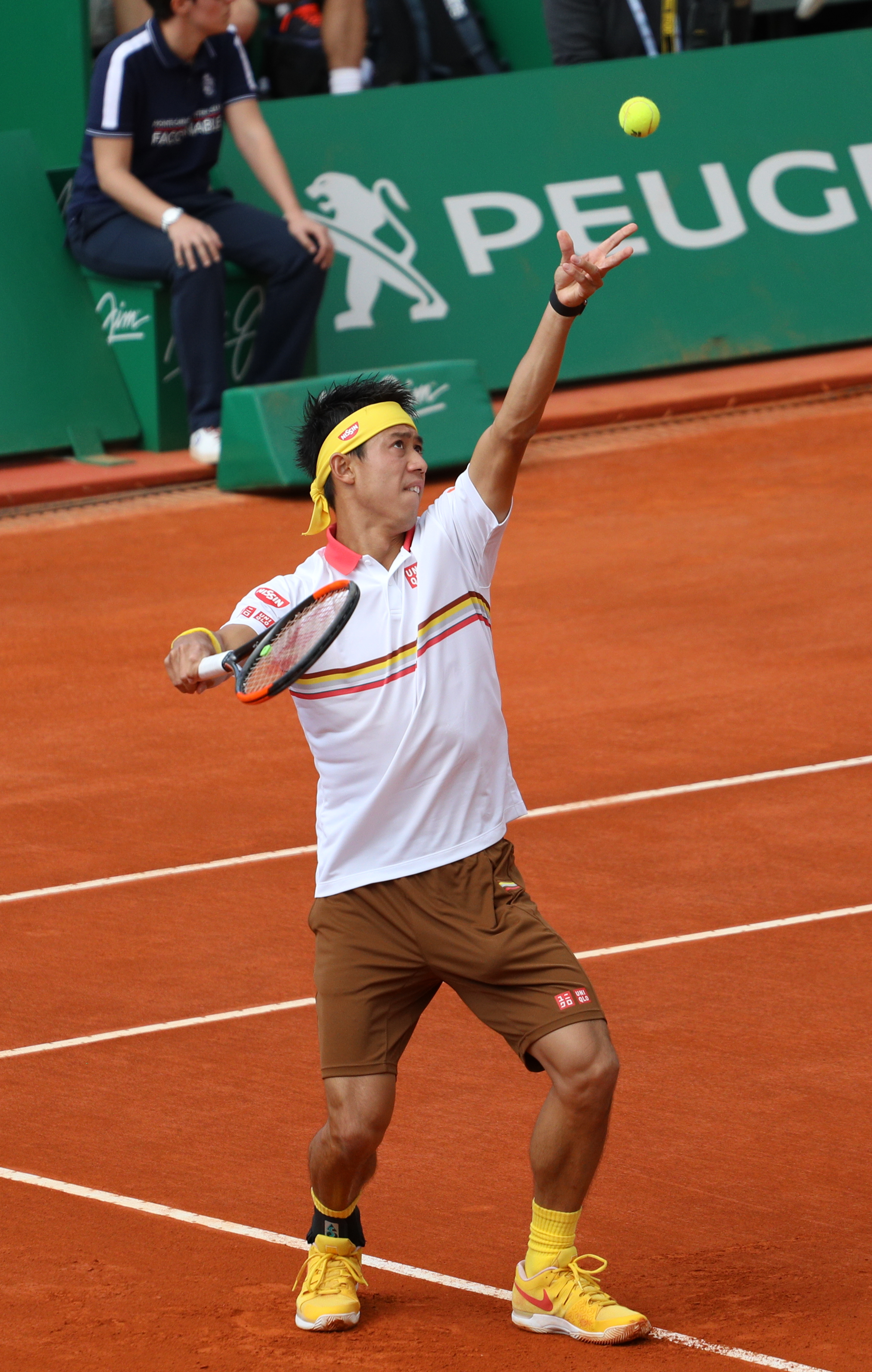 2018 Monte-Carlo Masters